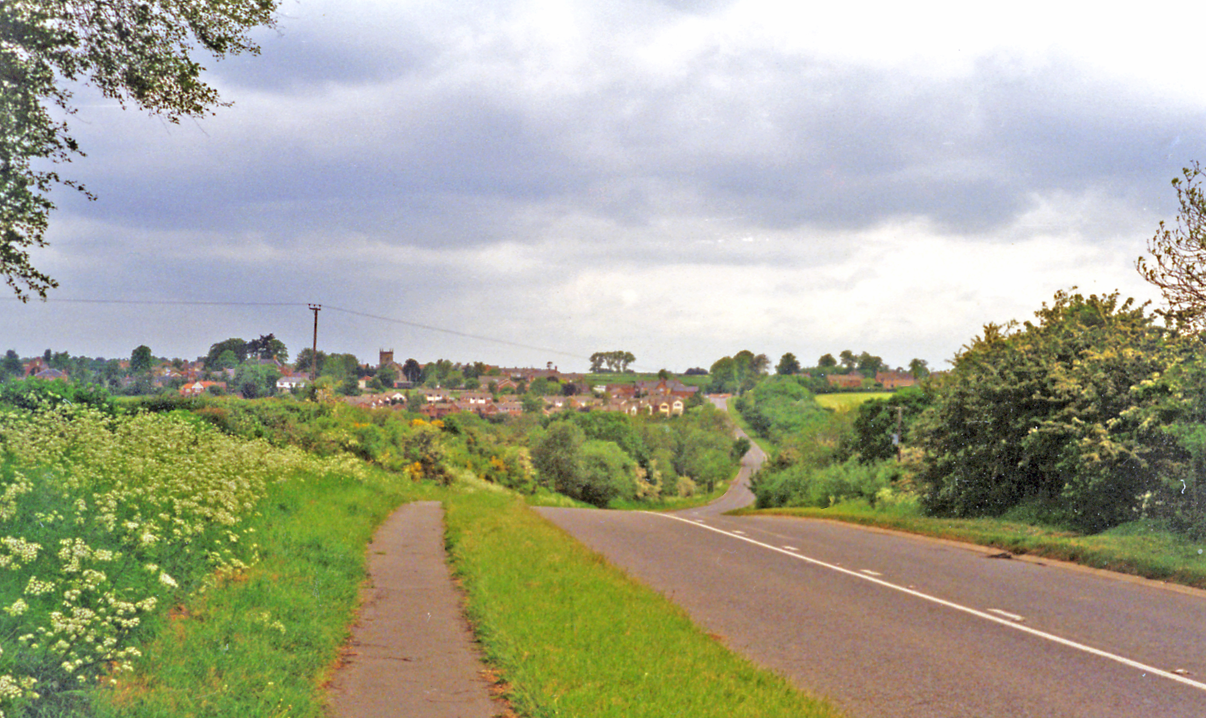 Site of Heather & Ibstock station. View westward, towards Heather on the B591 from Ibstock: the station had been in the dip ahead. It was on the ex-LNWR & Midland Joint (Ashby & Nuneaton) line from Nuneaton via Shackerstone (to left) to Coalville and Loughborough (right), the Charnwood Forest line. The station closed 13/4/31, but the line remained for goods until 7/10/63.